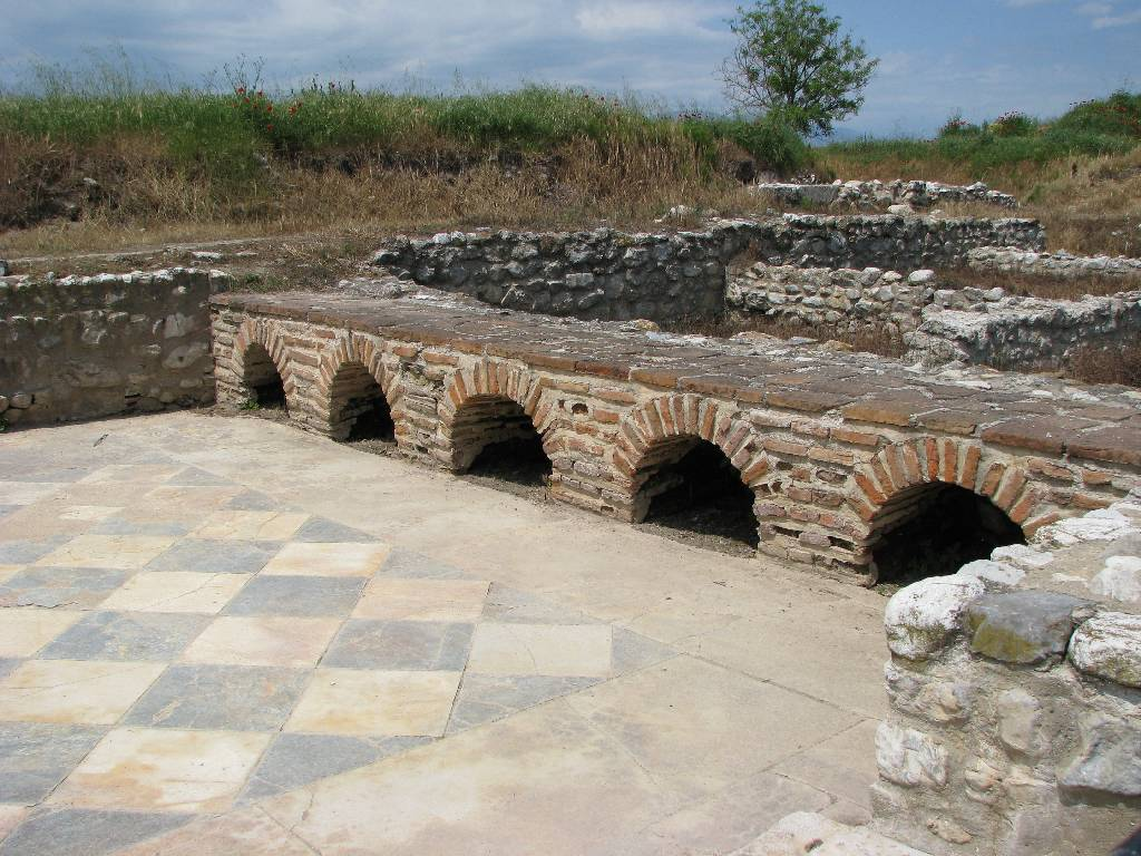 The Archaeological site at Dion, Pieria, Greece